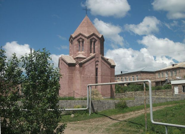 Sarchapet